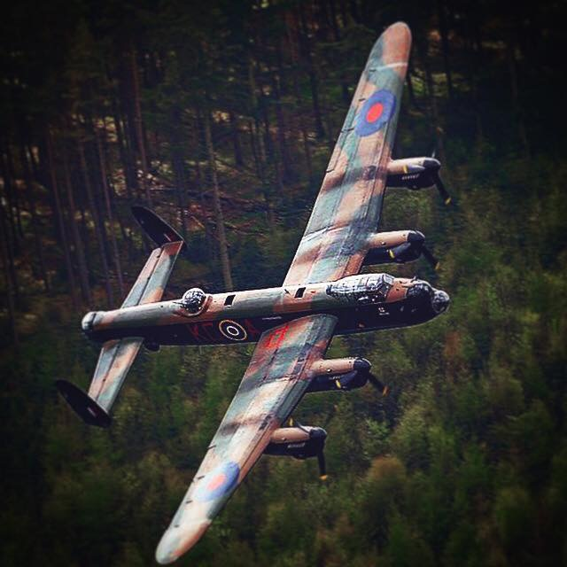 Lancaster